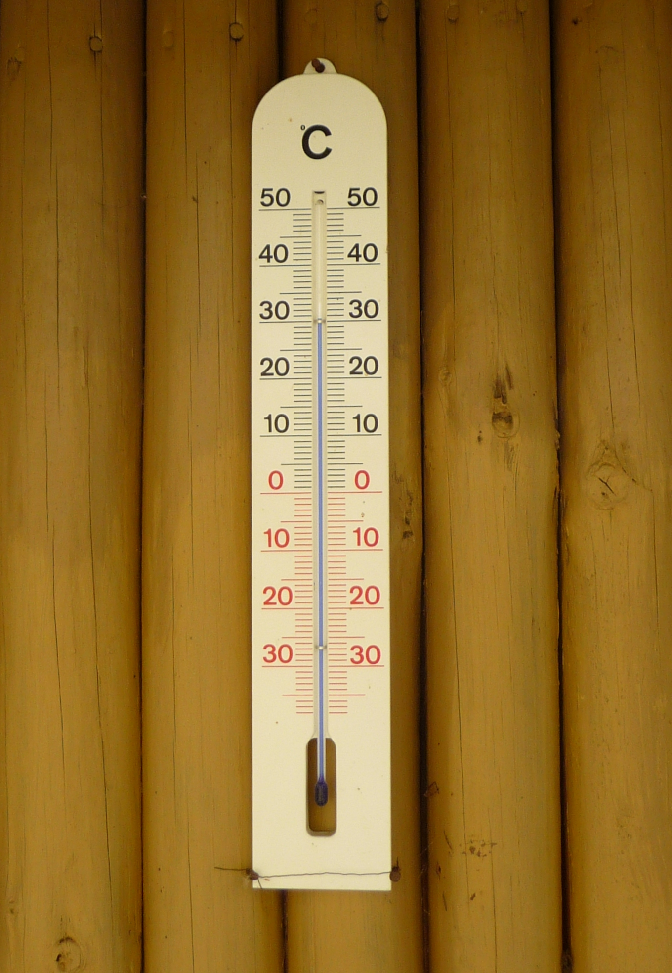 Outdoor thermometer